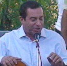 Serdar Denktaş, son of Rauf Denktaş and the head of Democratic Party (Demokrat Parti) in the TRNC.